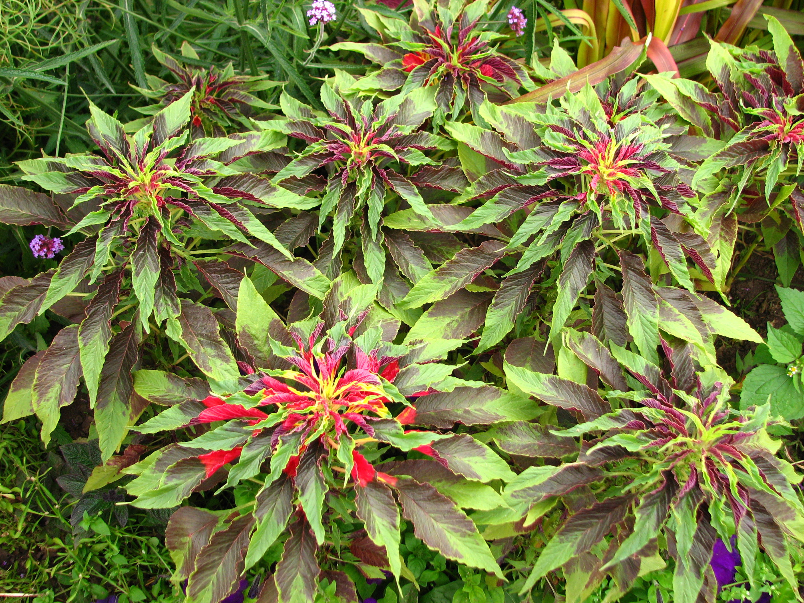 Flower beds in park Kolomenskoye (Moscow).